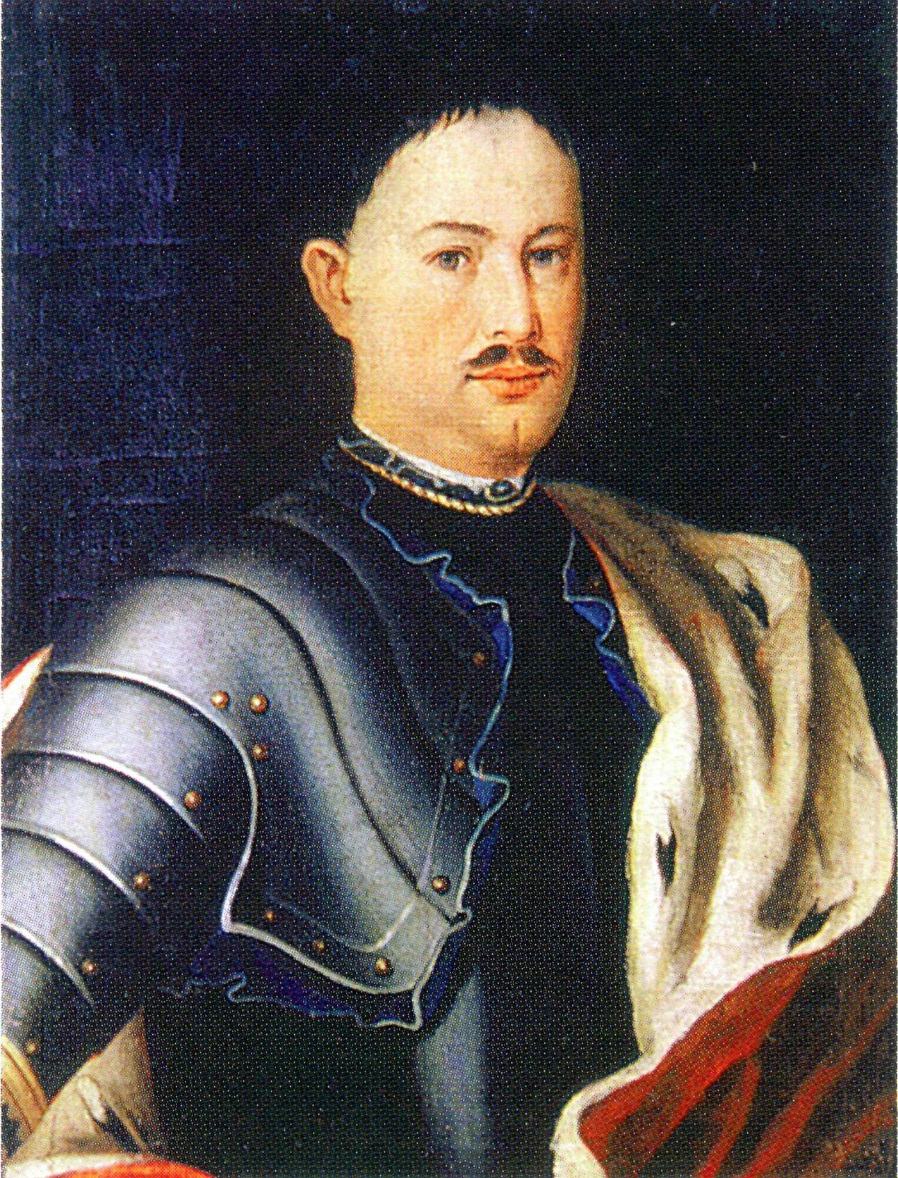 Portrait of Janusz Aleksander Sanguszko (1712-1775)